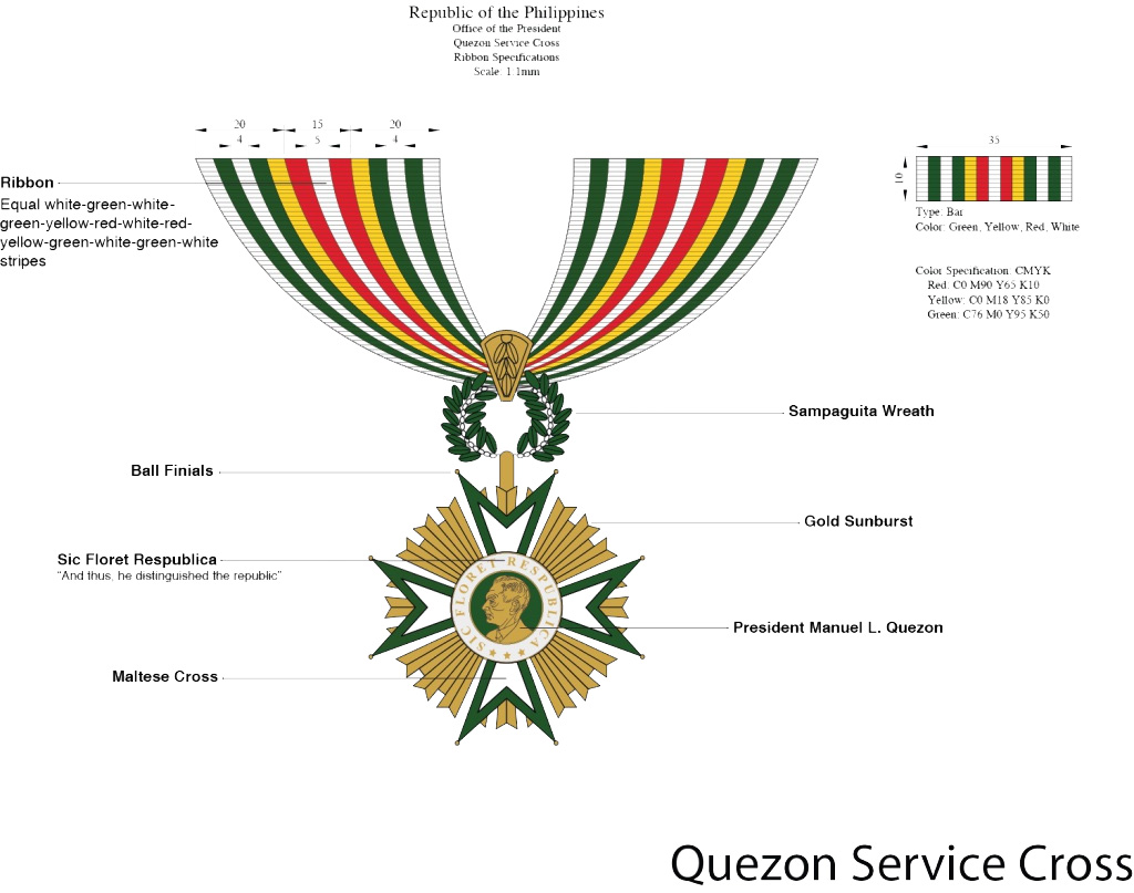 The Diagram of the Quezon Service Cross.